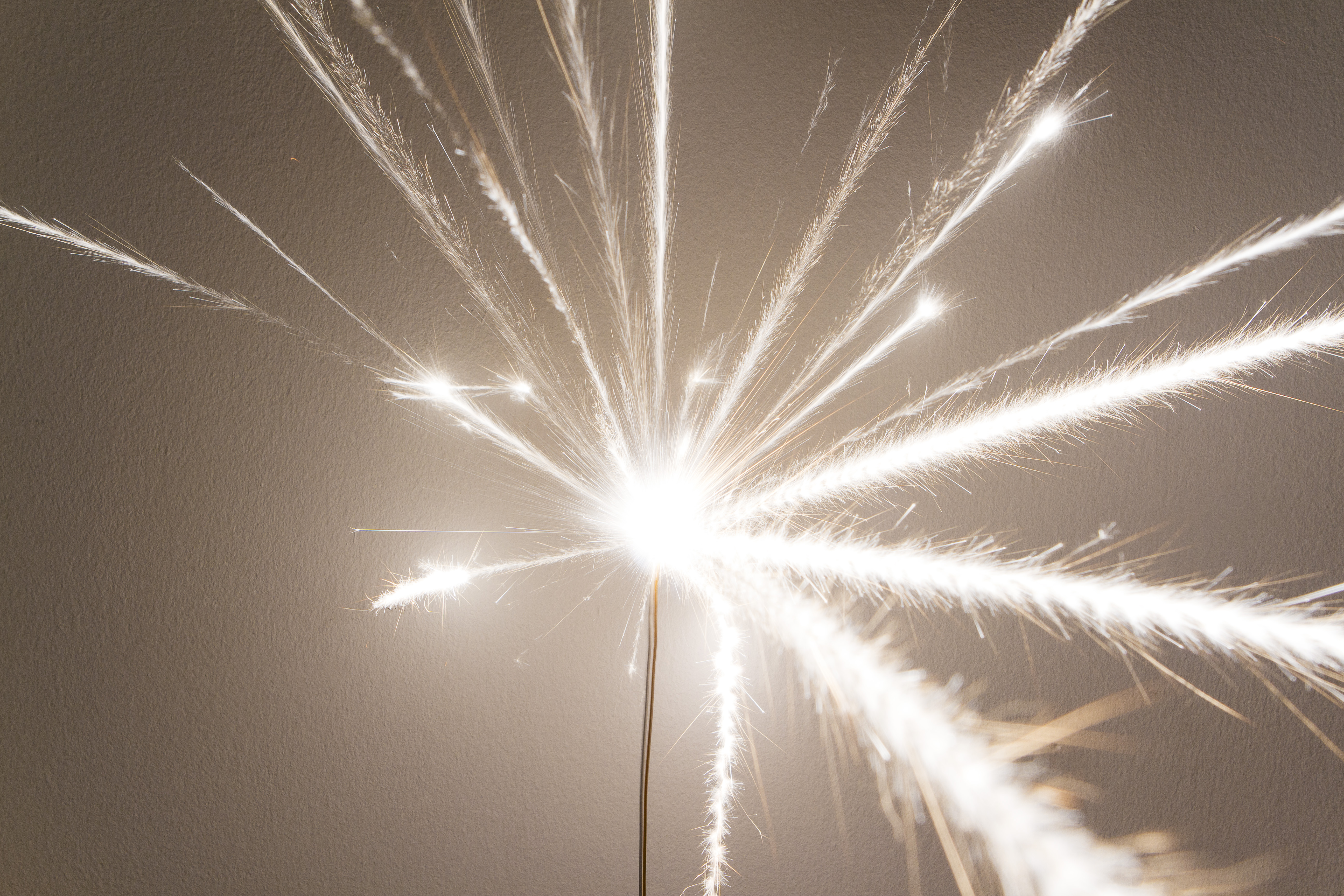 An E Match at the moment of ignition.